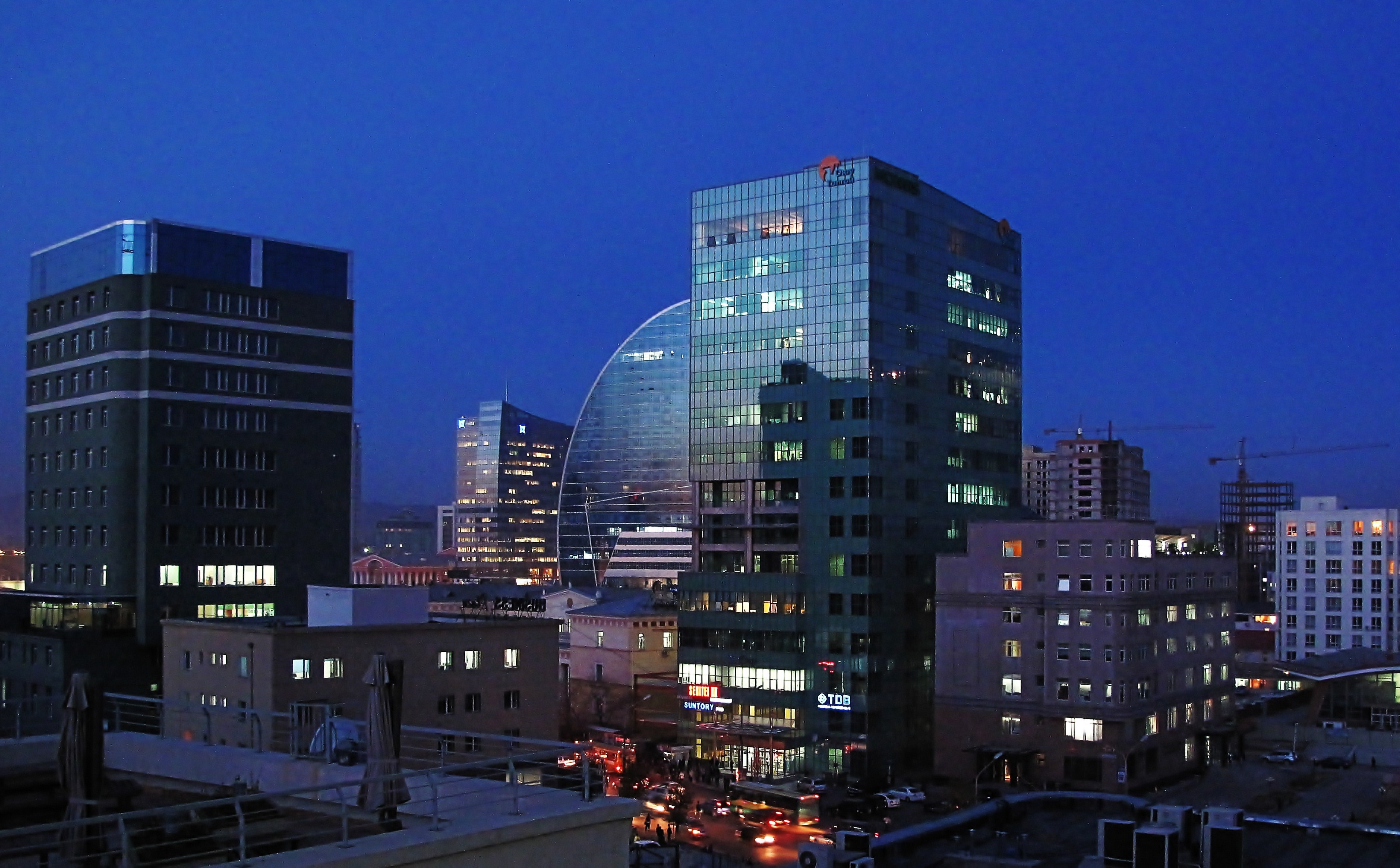 Downtown Ulan Bator